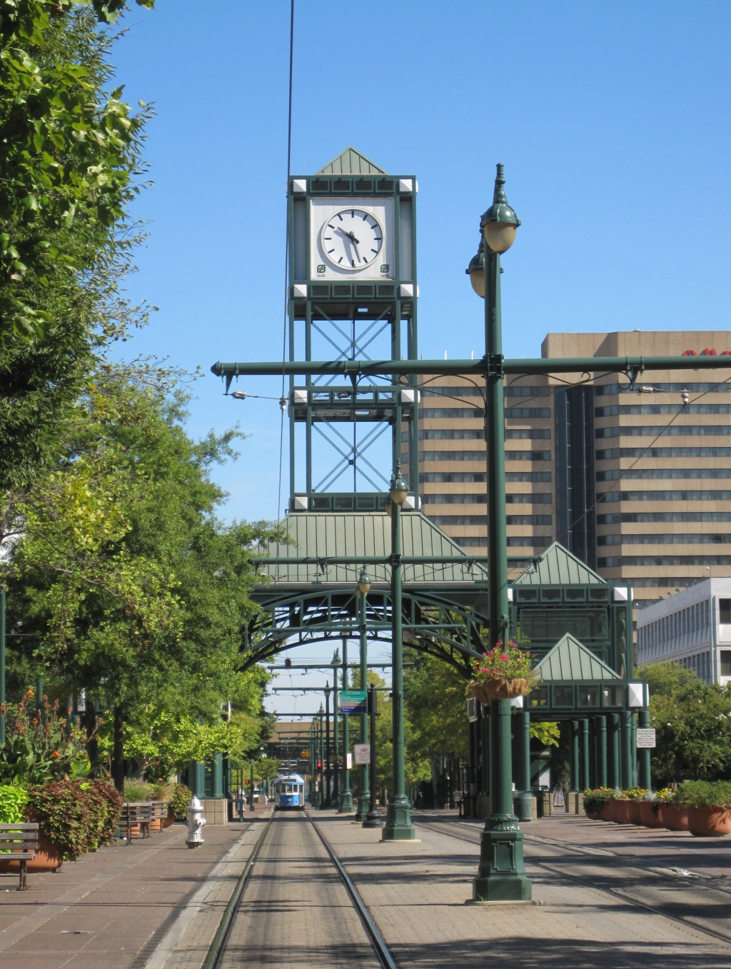 MATA trolley stop at Civic Center Plaza downtown Memphis, Tennessee